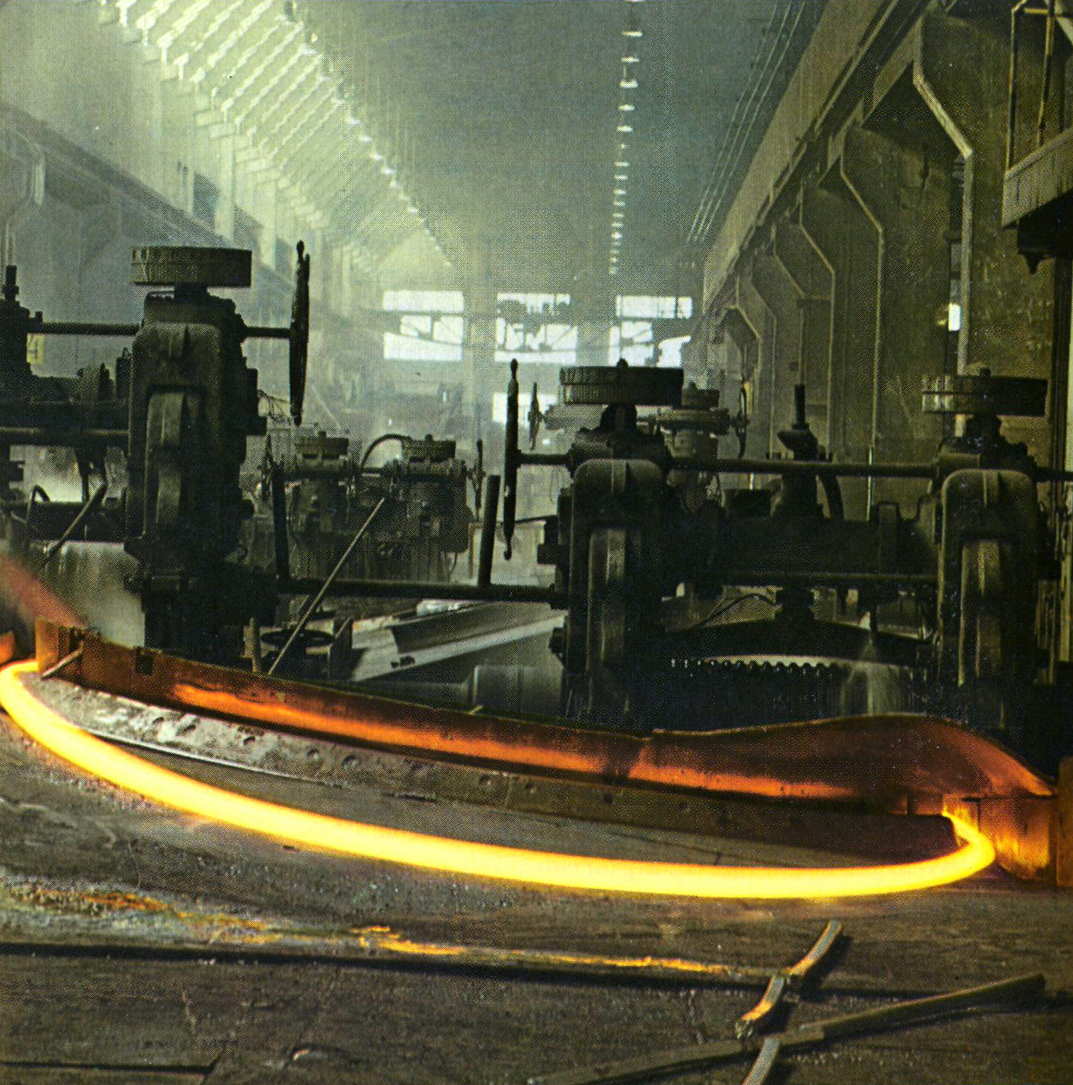 Wire-rod mill in (now defunct) Fagersta ironworks, Sweden.